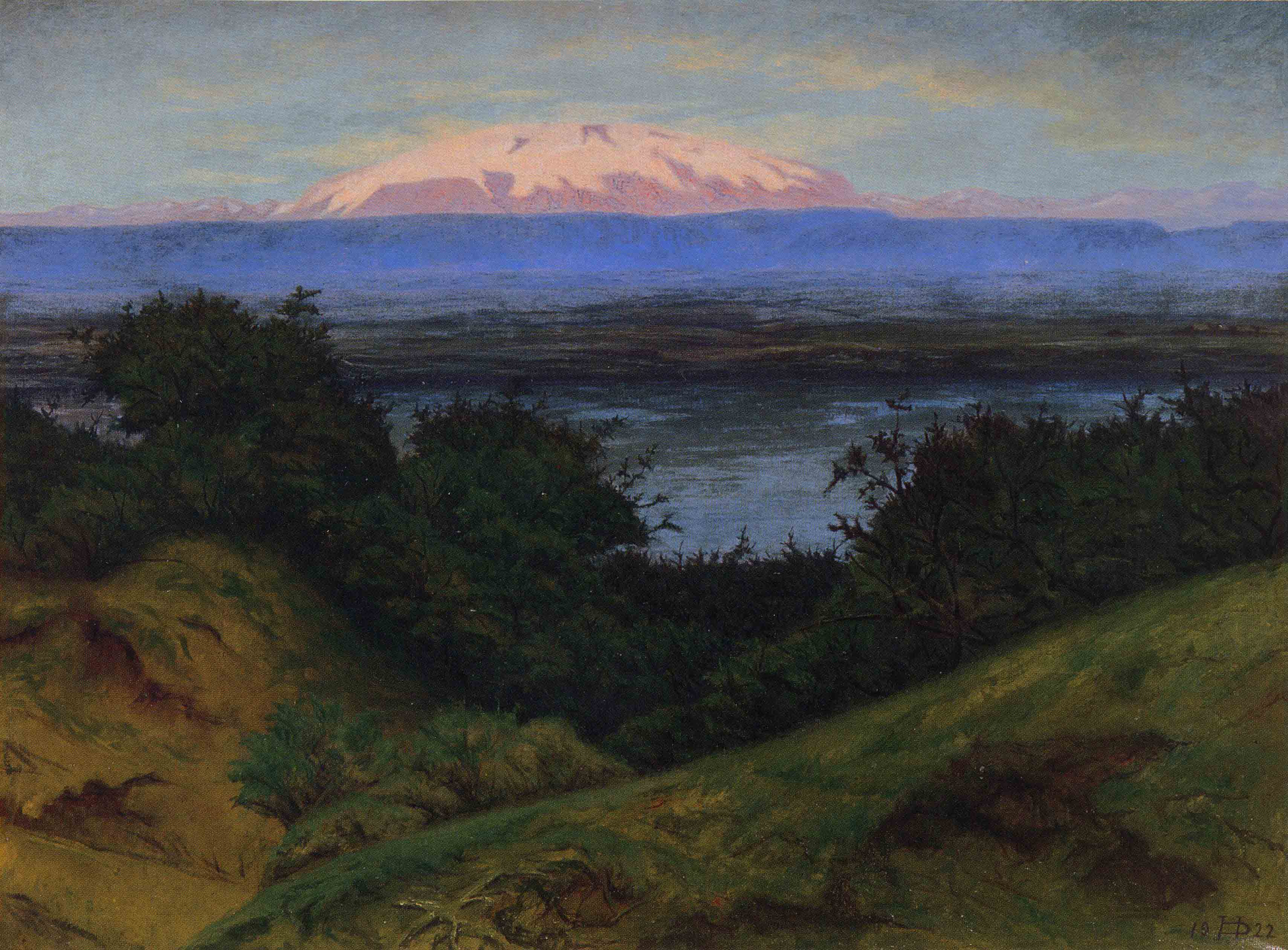 Hekla úr Laugardal (Hekla from Laugardalur) by Þórarinn B. Þorláksson (1867-1924). Made in 1922. Source and copyright Obtained from umm.is, an information portal about Icelandic artists. They don't specify where they obtained the image. Specific link: Published (in black and white) in "Björn Th. Björnsson (1964). Íslenzk myndlist. Reykjavík, Helgafell." vol. I, page 91. This may or may not be the first publication. Note that even photographs which are not artworks have a copyright protection of 50 years from creation in Iceland. Thus it is not clear that this image is in the public domain in Iceland.